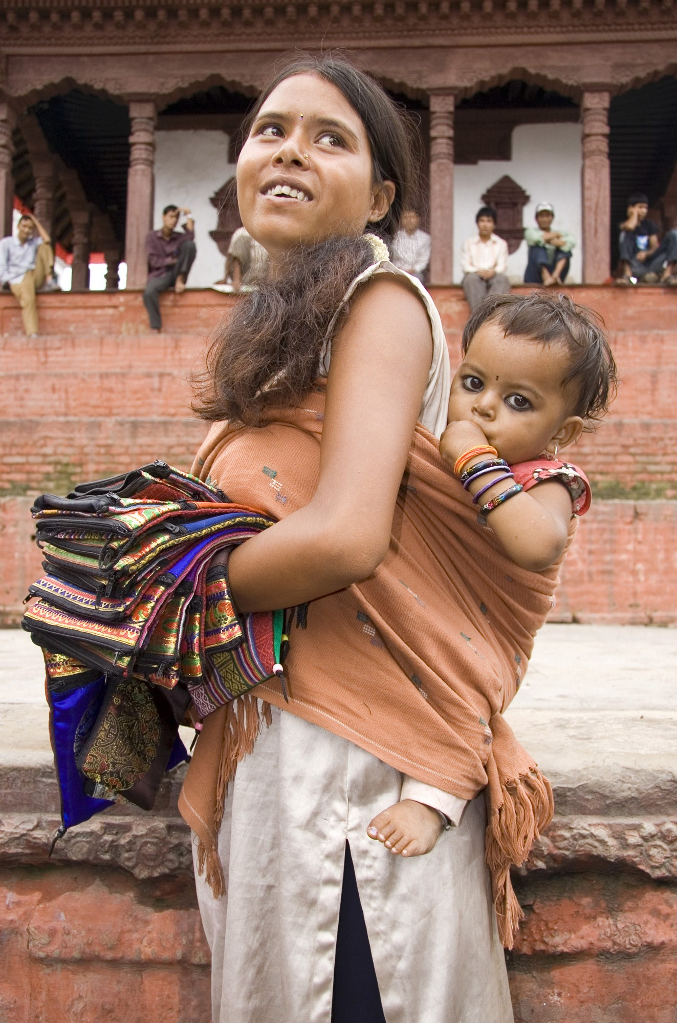 Mother and Son in Durbar Square, Kathmandu, Nepal.